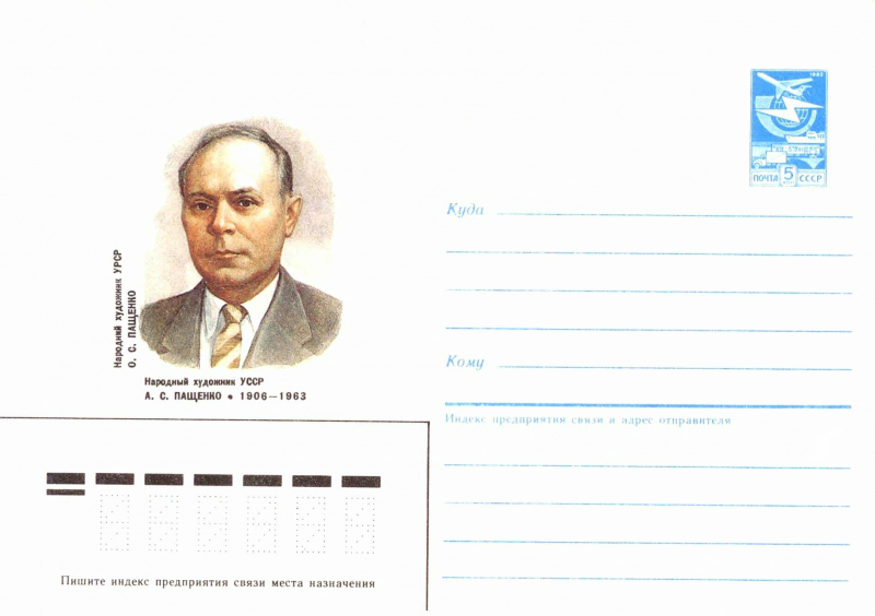 Covers of the Soviet Union